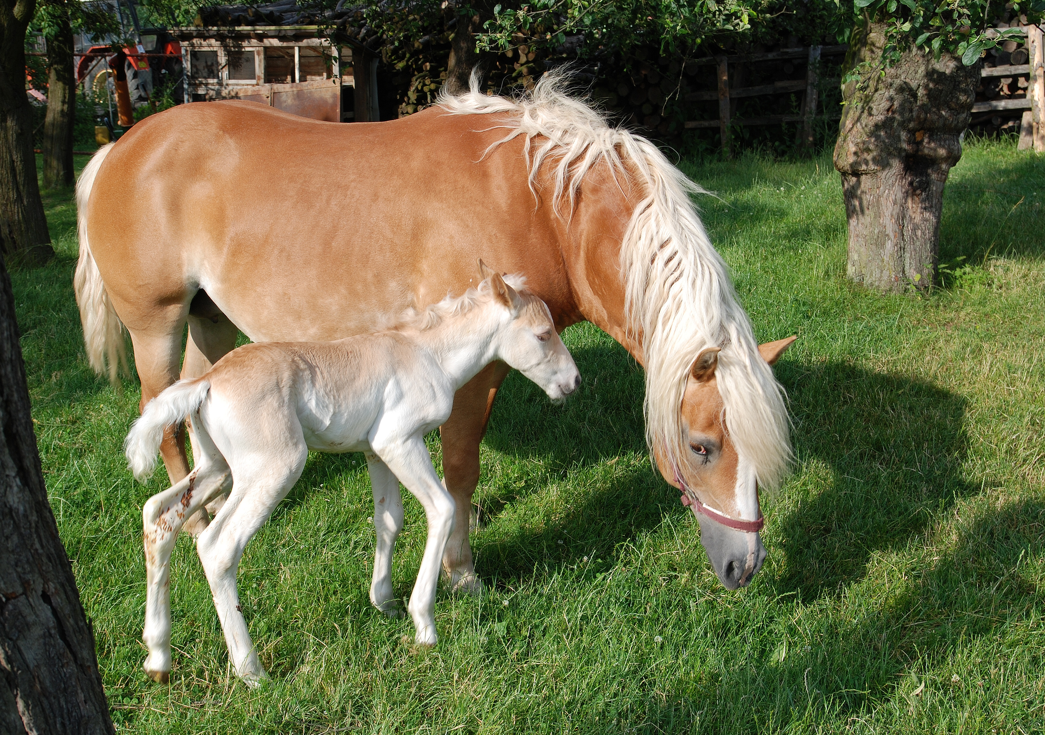 Haflinger with 40 hours old colt